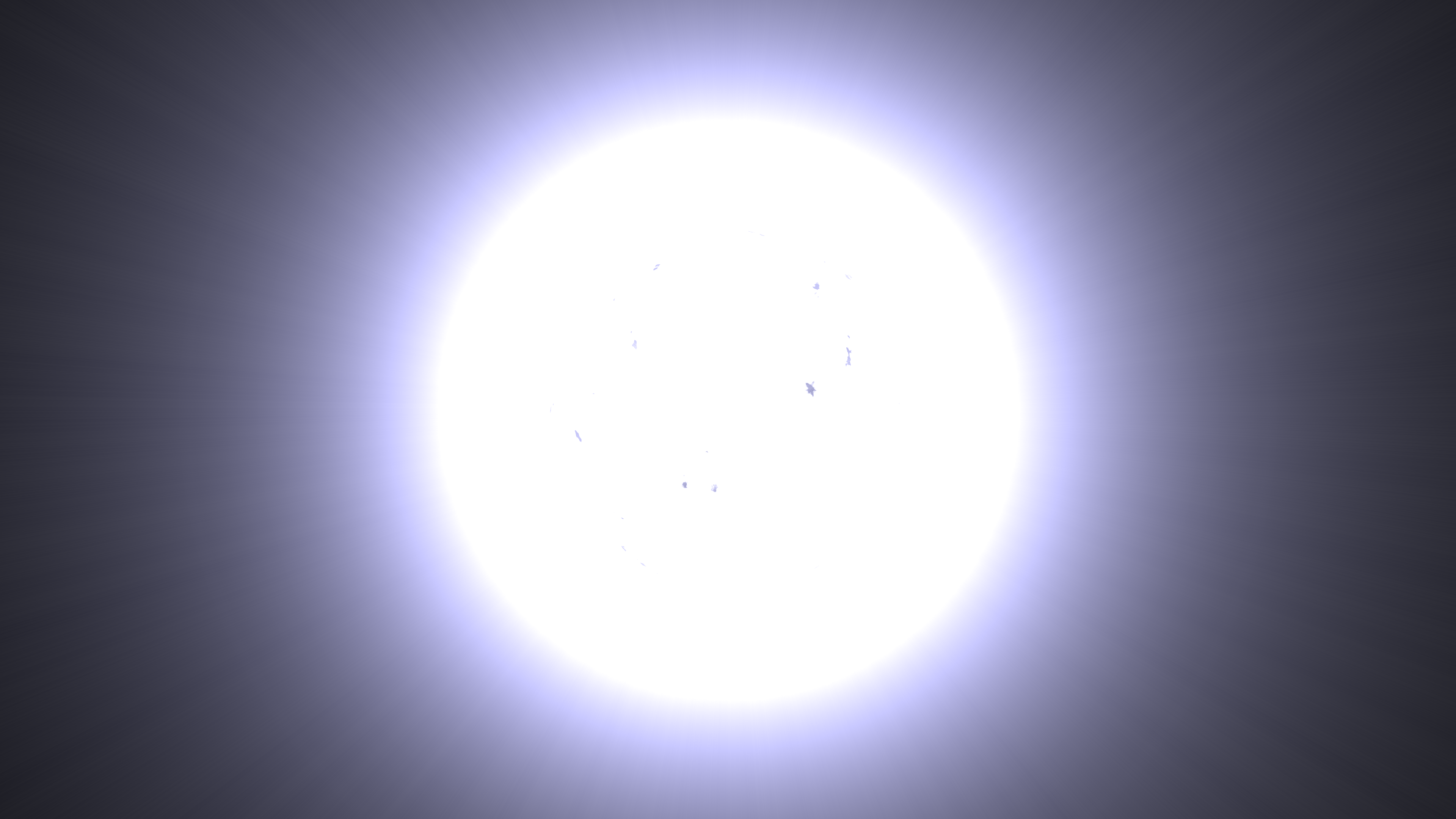 White A-type main sequence star.